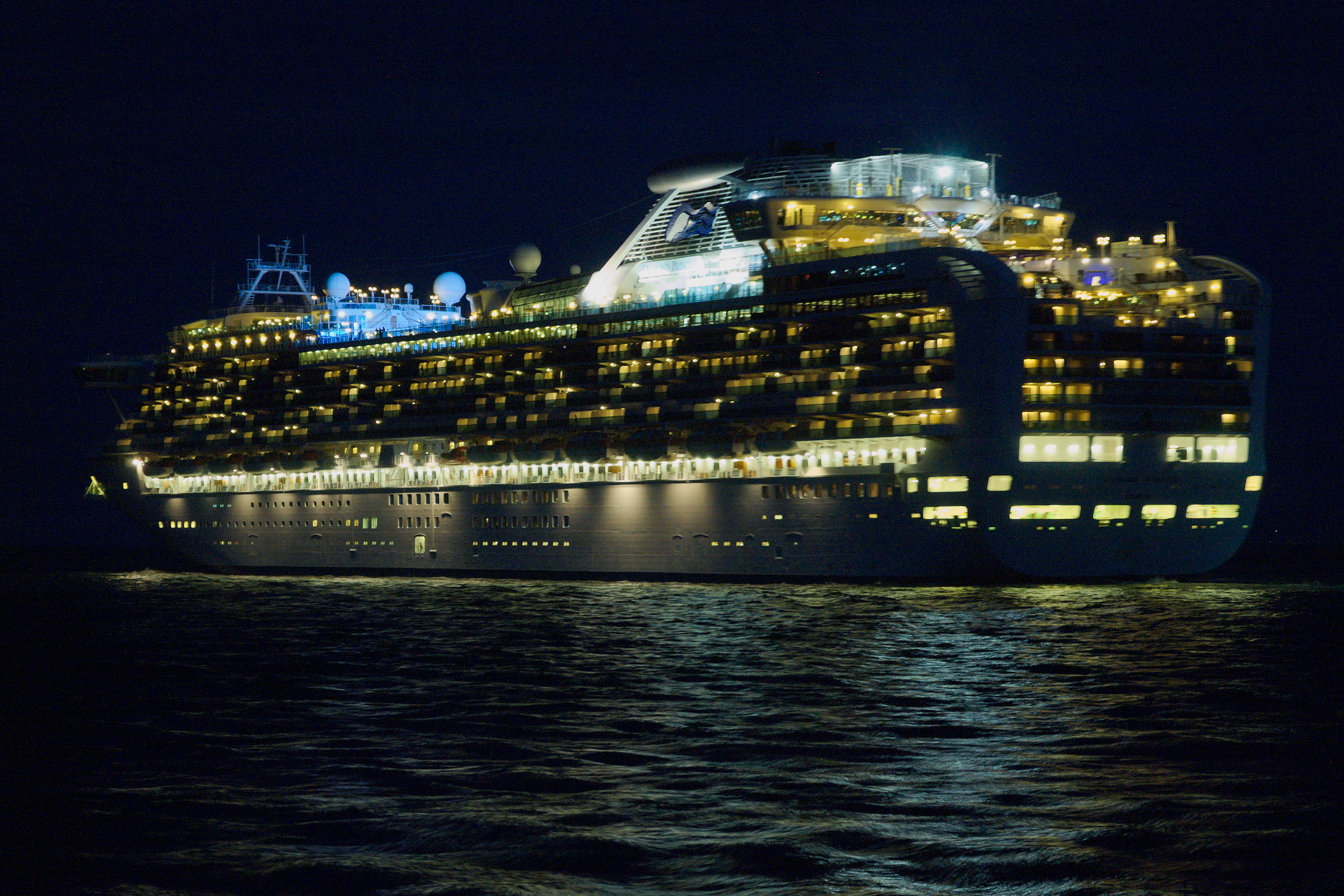 Diamond Princess cruising at night, Sakaiminato, Tottori Prefecture, Japan.